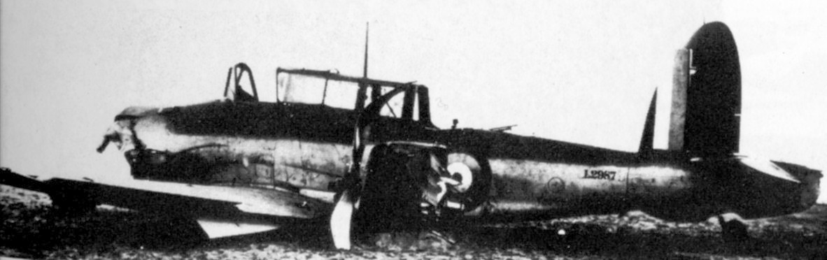 The Blackburn Skua serial L 2987 in the Porto Palo beach (close Siracusa, in Sicily, Italy) after the crash-landing on November 17, 1940 made by Petty Officer Eric J. Stockwell (RN), within the Operation White